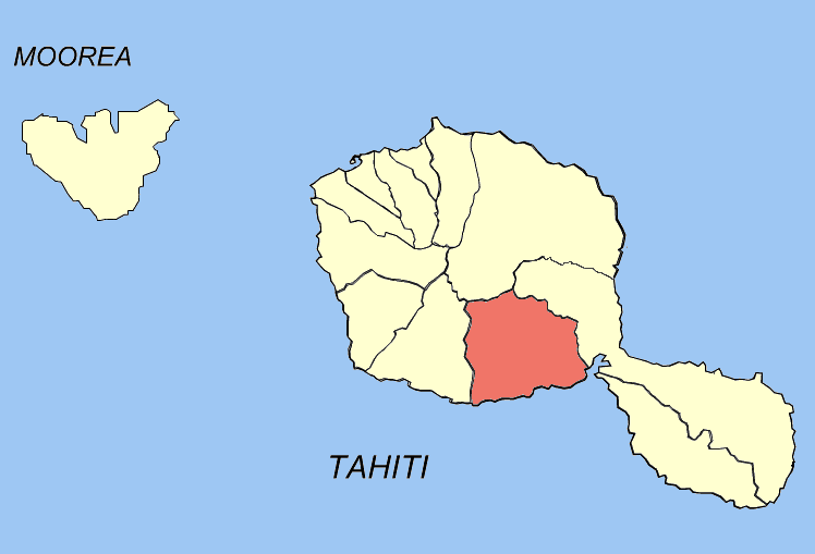 Map of Tahitian communes — Teva i Uta